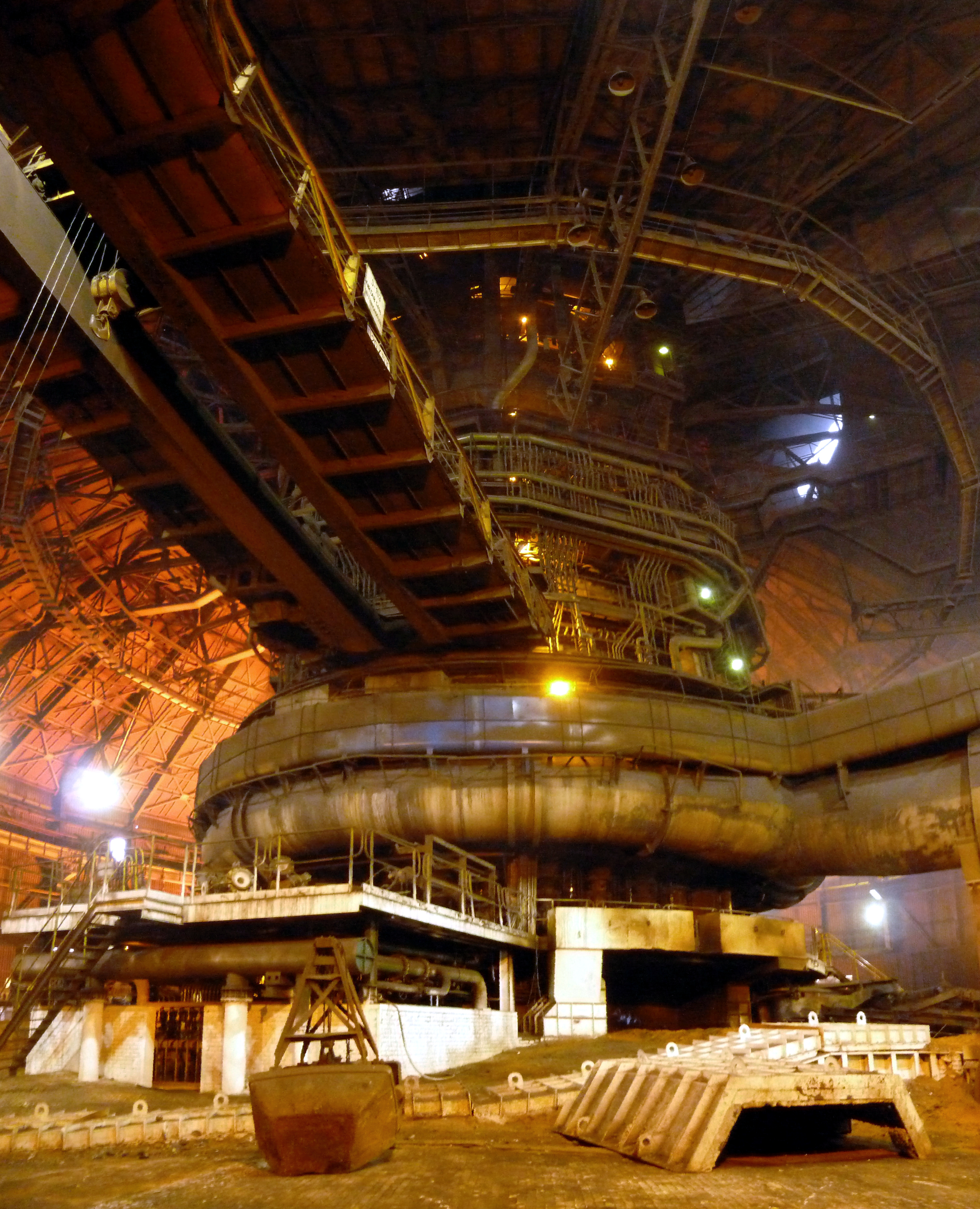 View of the casting floor and of the blast furnace proper of Blast Furnace 2 of Dąbrowa Górnicza, Poland, in 2014. The central positioning of the BF proper, in a circular hall, is caracteristic of the soviet blast furnaces. Top right, the overhead crane. Panorama created with Hugin from 2 wide angle pictures (Panasonic TZ7).